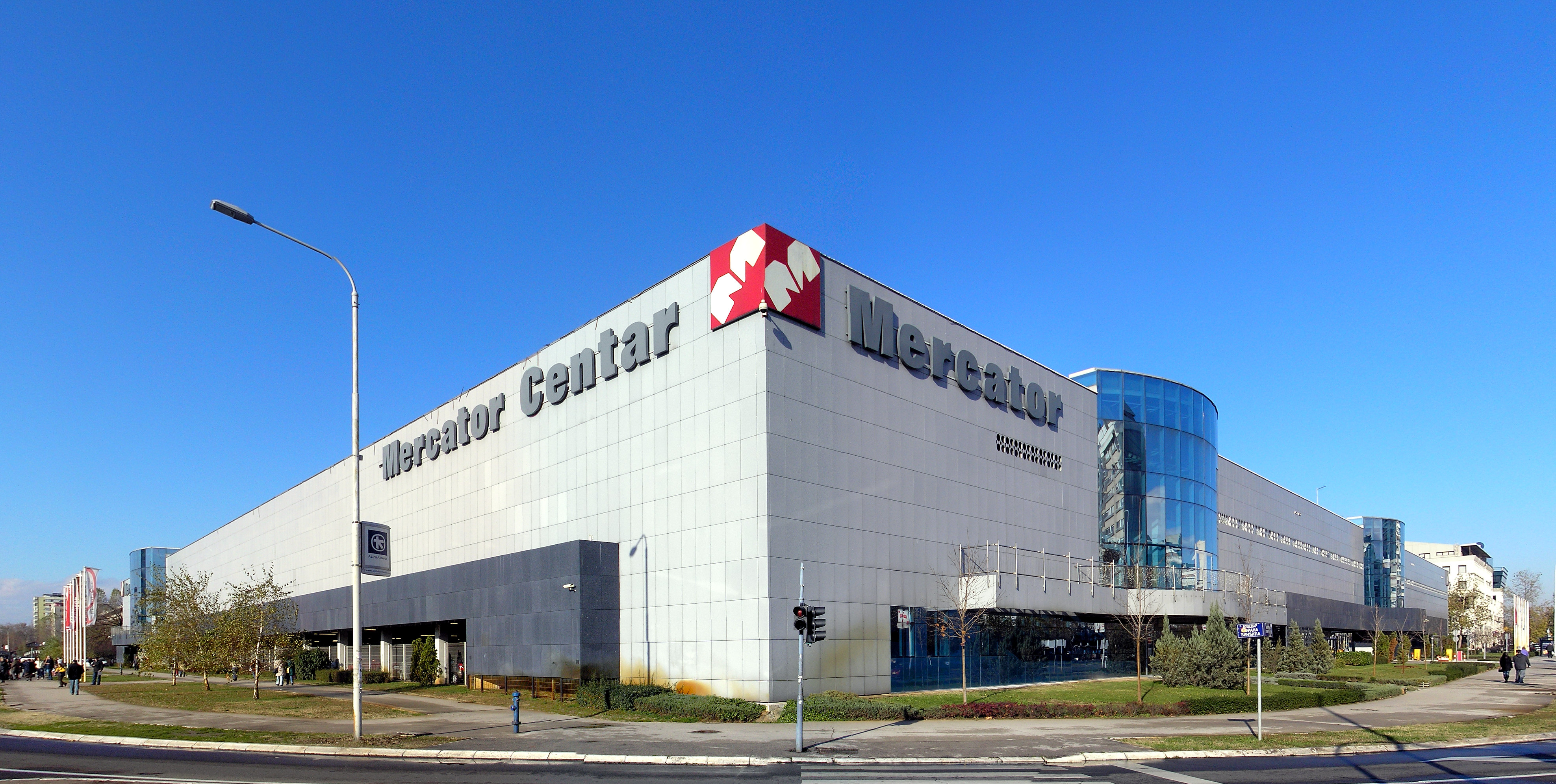 Merkator centre in New Belgrade, Serbia.